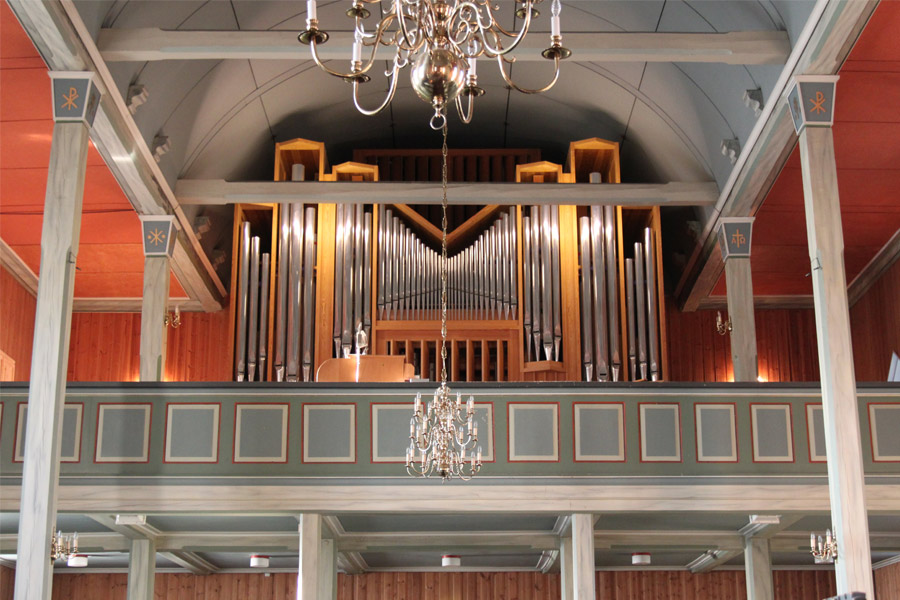 Organ in Odda church